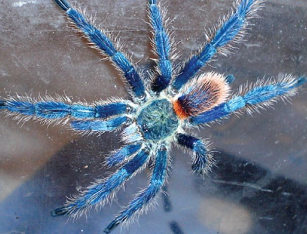 Dolichtohele diamantinensis holotype male (MZSP 29071)